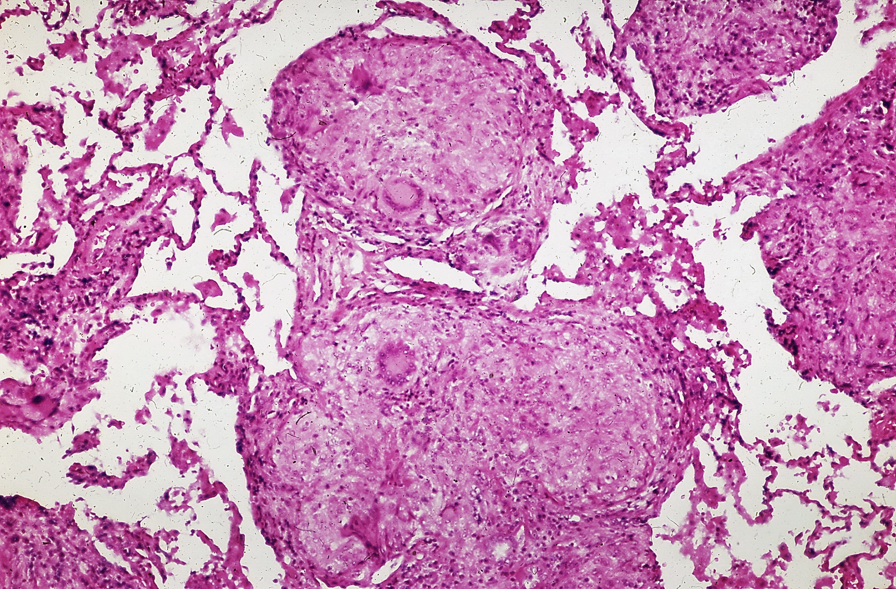 Sarcoidosis Non-necrotizing granulomas. Individual granulomas may coalesce, as seen in this image, to form micronodular or macronodular lesions.